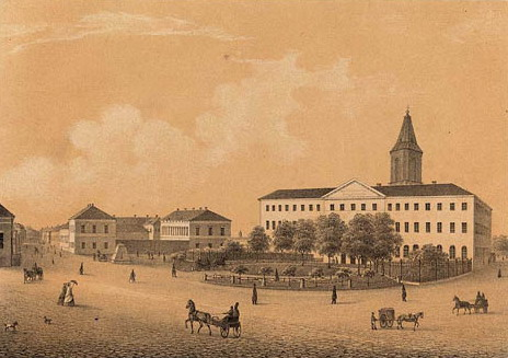 Original description: The Academy of Turku (later University of Helsinki) before Turku was destroyed by fire in 1827. Note: The picture is from before the fire. This building was finished in 1815 and the lithography is made by J.J. Reinberg. This building was destroyed in the fire of 1827. Alternate Note: The picture is probably from after the fire. The tower of the Cathedral and the width of streets are witnesses of that.